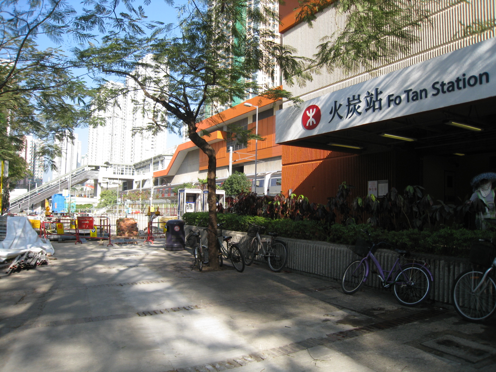 Entrance of Fo Tan Station Exit B. The escalator in the back is Exit D. 中文（香港）: 火炭站 B 出口的入口。後方的扶手電梯是 D 出口。